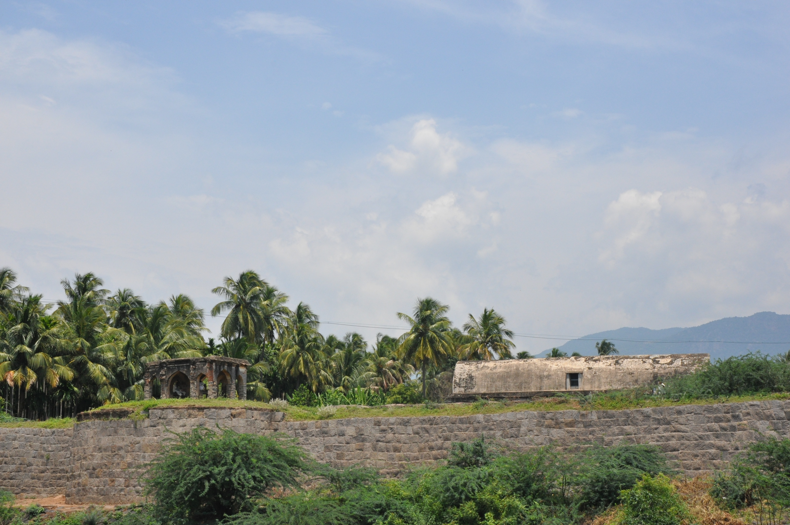 "A long Shot of Fort of Attur". Location: Attur,Salem district,Tamil Nadu, India.